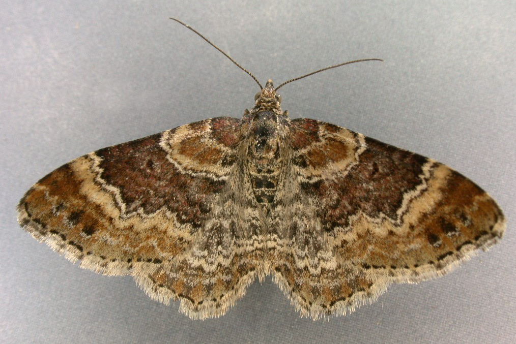 Xanthorhoe spadicearia, Red Twin-spot Carpet, Trawscoed, North Wales, May 2005